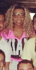 Ludmila, Brazilian singer.